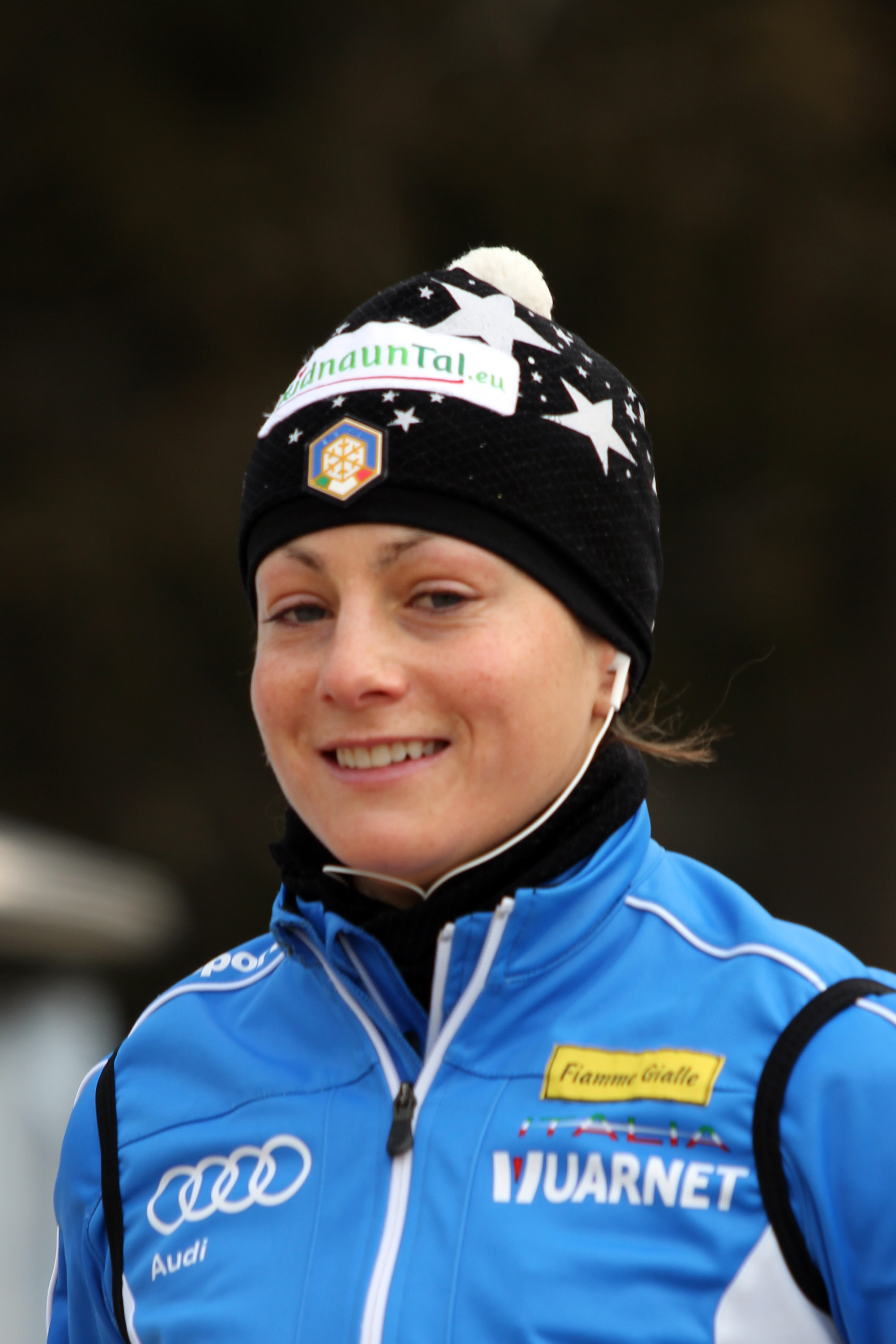 Katja Haller WC Anterselva 2011